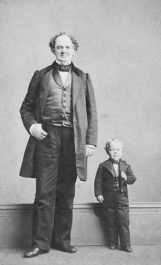 P. T. Barnum (1810-1891) and Commodore Nutt (1848-1881)